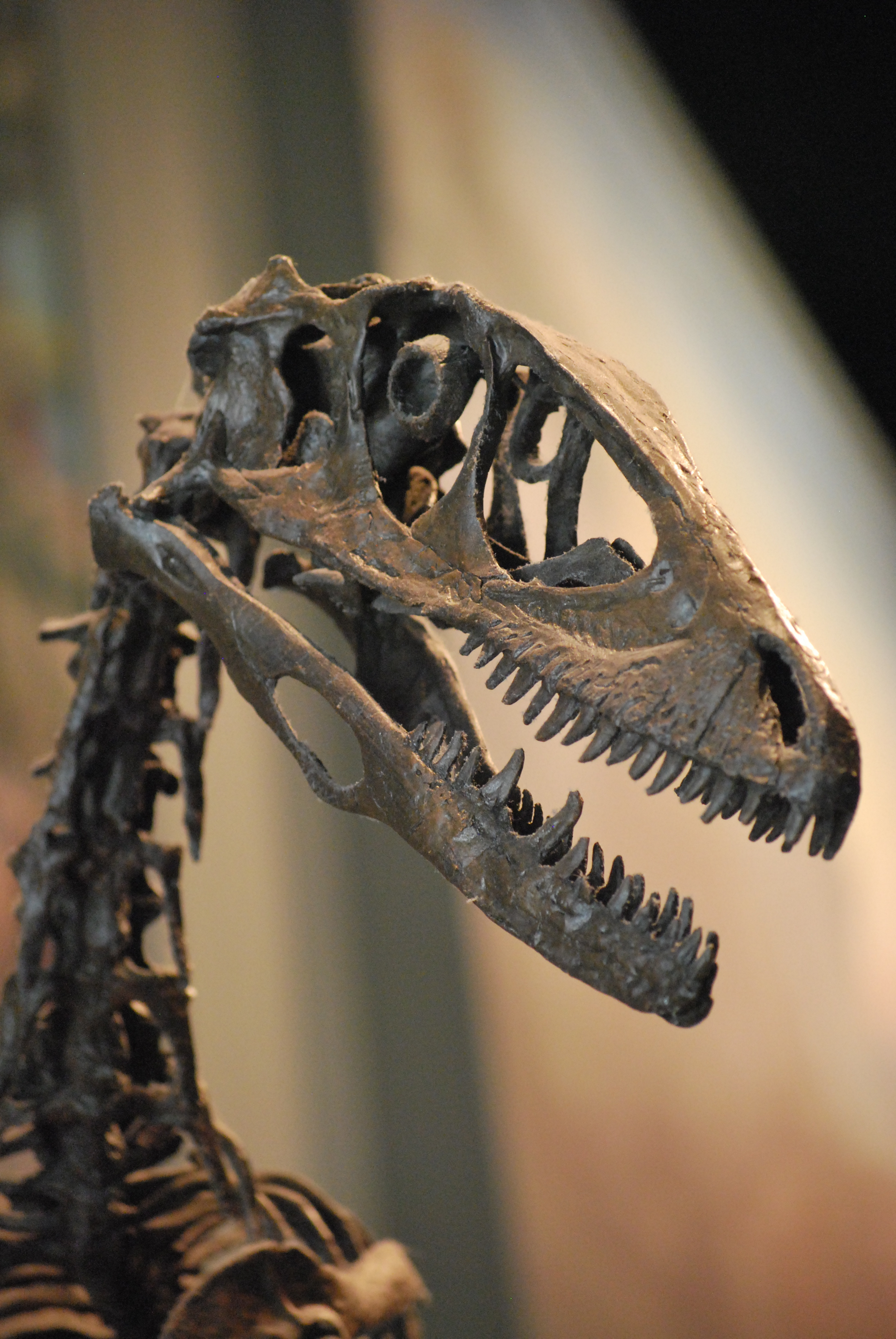 A headshot of the Deinonychus mount at the Field Museum of Natural History, Chicago, IL.